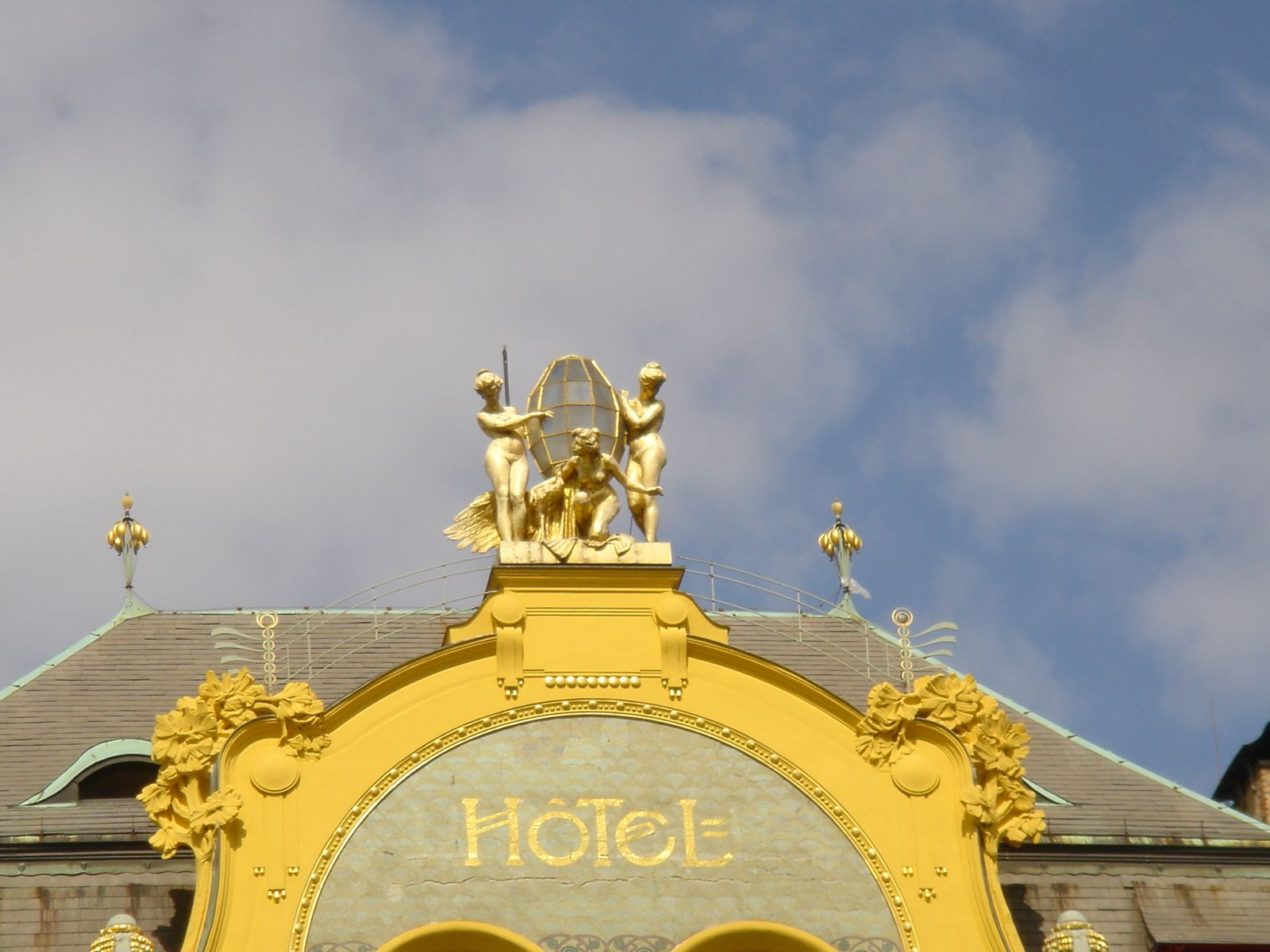 Praha - Václavské náměstí - View NE on Hotel Evropa - Jugendstil